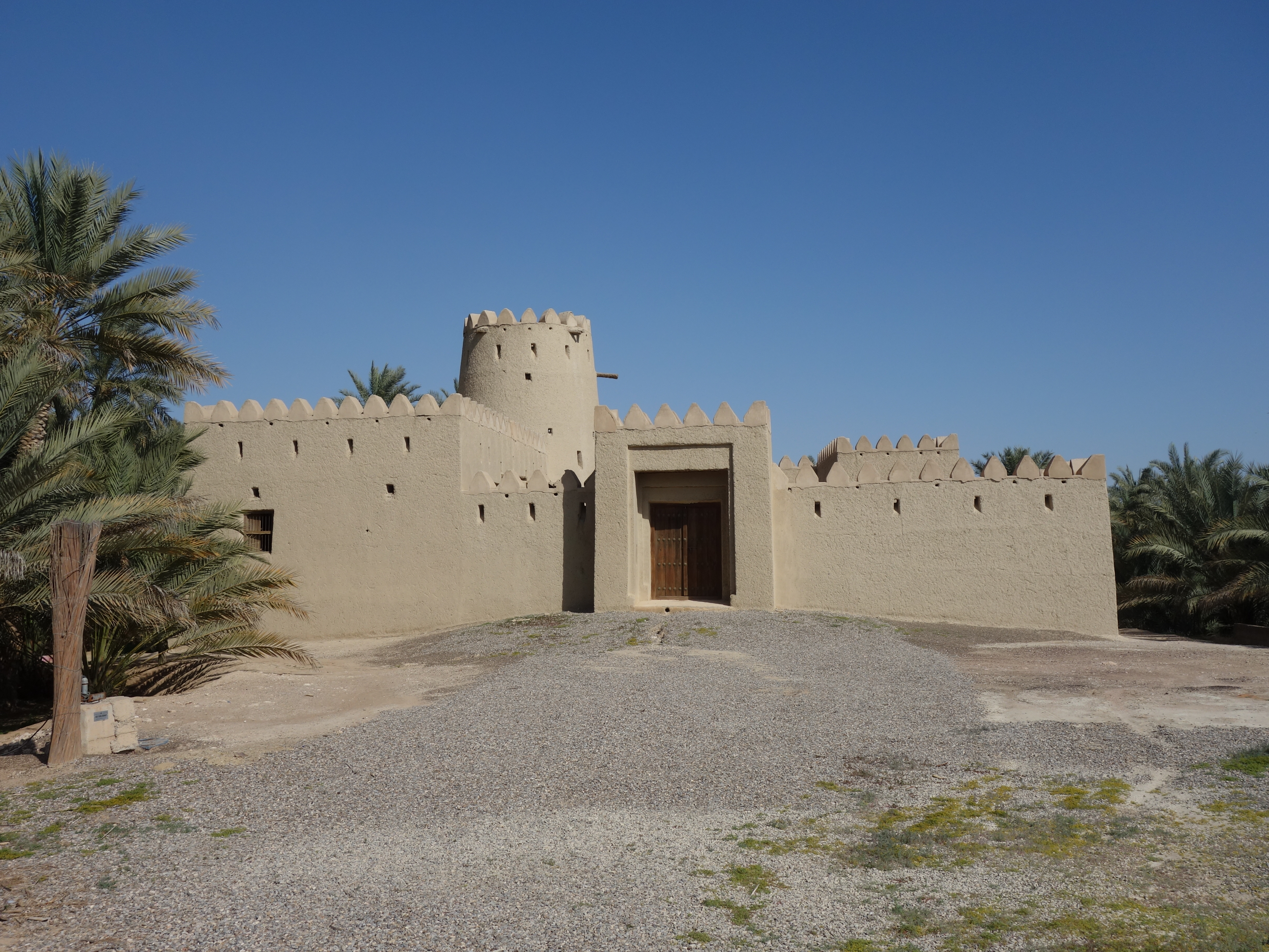 Al Hili Fort